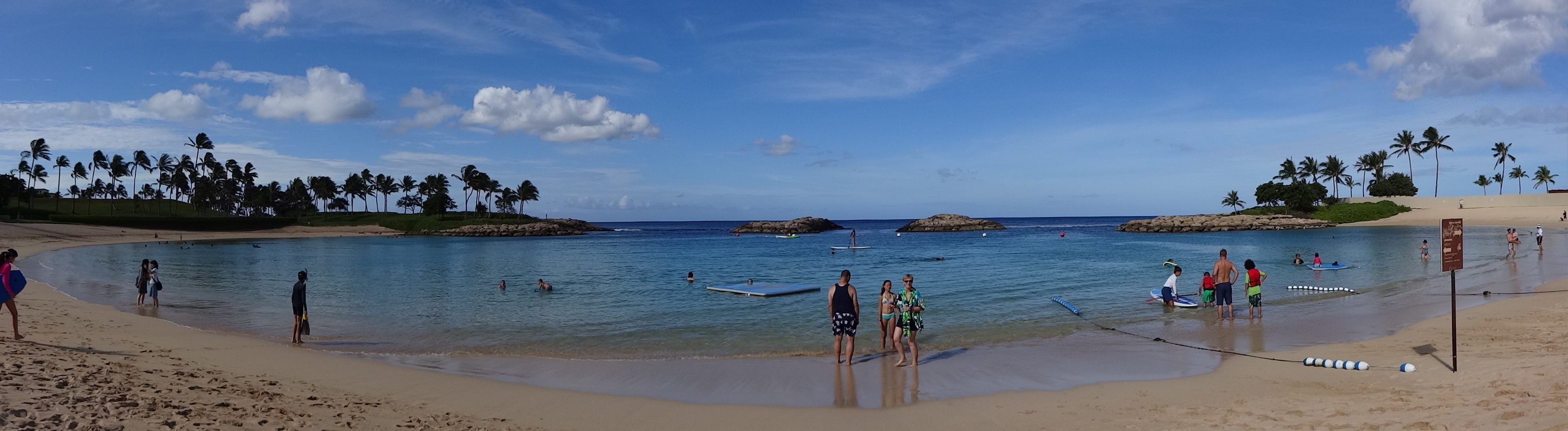 Panorama of Ko Olina lagoon 1 ("Kohola", or humpback whale), Kapolei, Hawaii